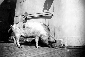 'Tirpitz' the pig after being captured and adopted by the British. The pig started service life on board the German light cruiser DRESDEN, which was sunk by the Royal Navy on 14 May 1915. A sailor from HMS GLASGOW noticed 'Tirpitz' swimming in the water and, after nearly being drowned by the frightened pig, succeeded in rescuing her. 'Tirpitz' served as the mascot of HMS GLASGOW for a year and was then transferred to Whale Island Gunnery School, Portsmouth, for the rest of her career. She died in 1919.